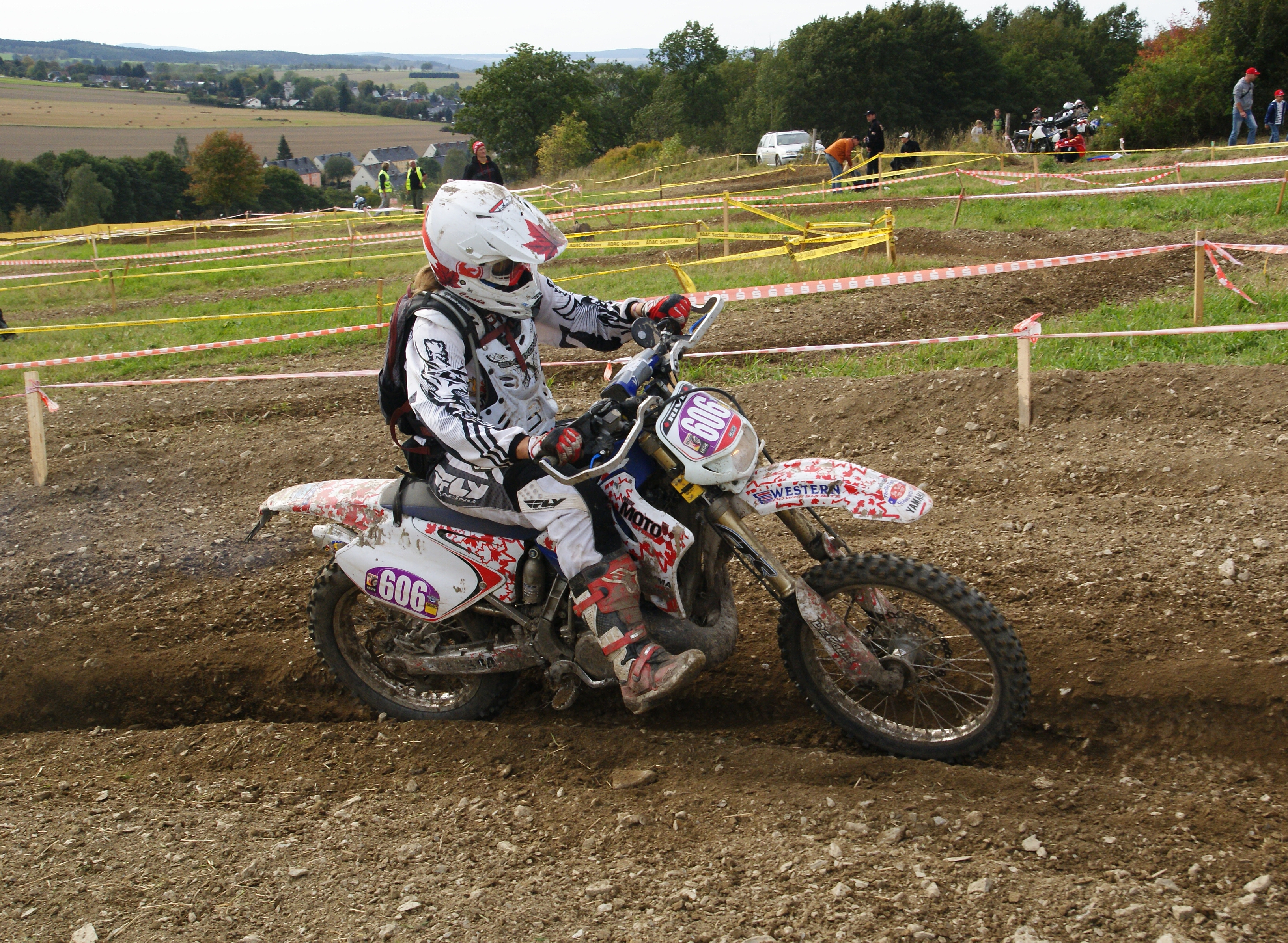 The making of this document was supported by the Community-Budget of Wikimedia Germany. 87. ISDE Saxony Red Bull SIX DAYS ST 3 Erzgebirgssparkassentest Zwönitz Almeda Rive